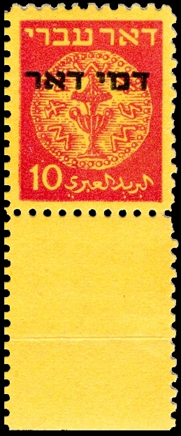 Postage Dues "Hebrew Mail" stamp - 10 mil